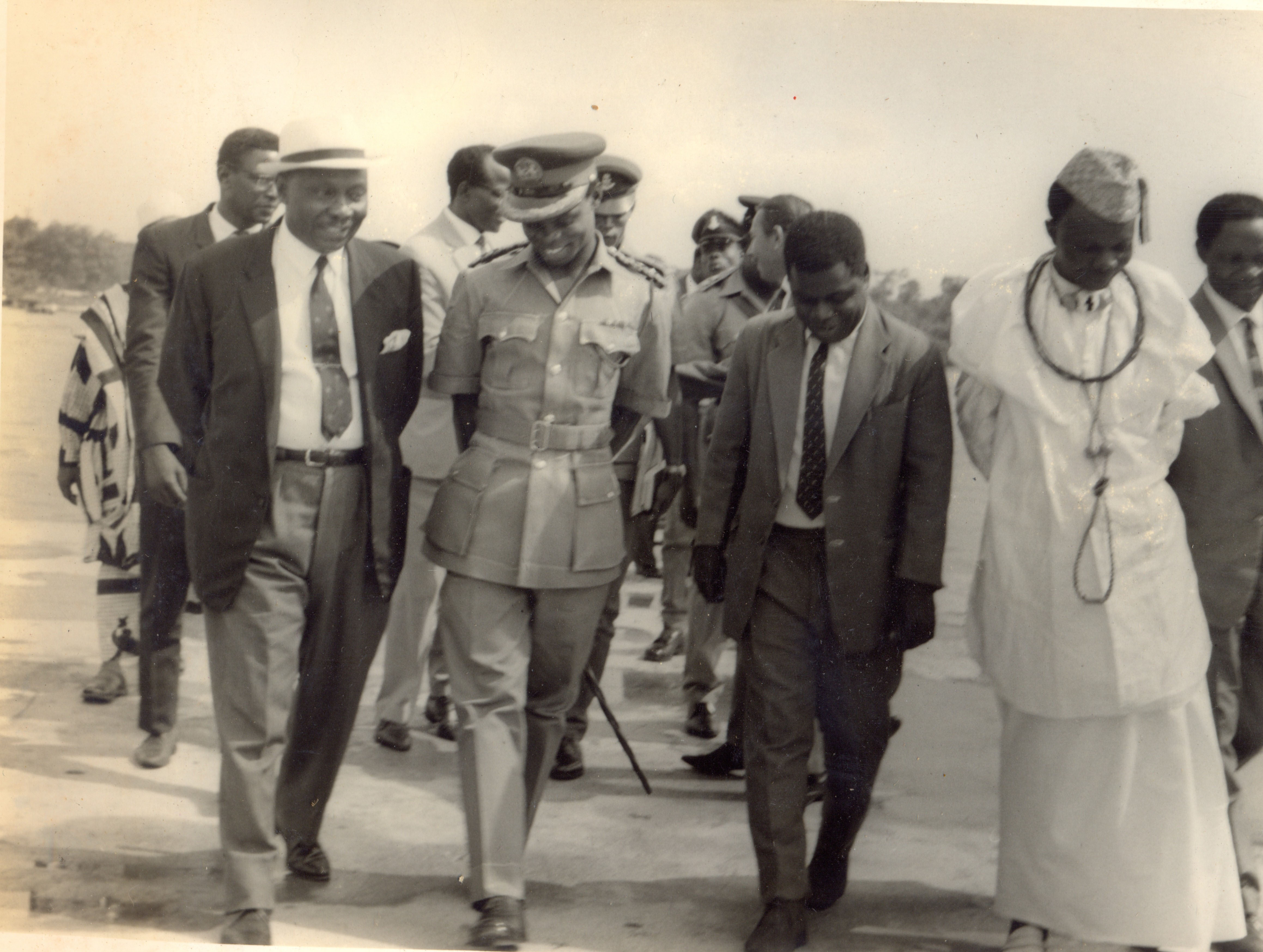 mid western governor visit